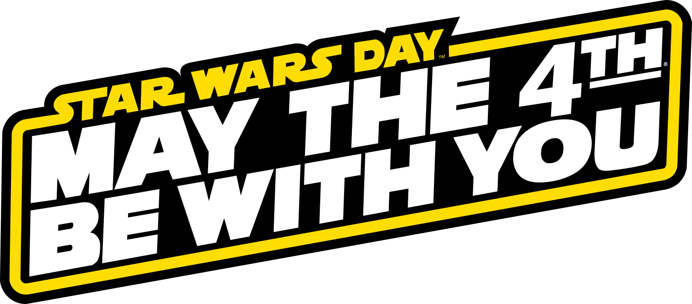 May The Fourth